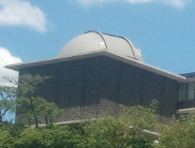 Koyama Astronomical Observatory, Kyoto Sangyo University